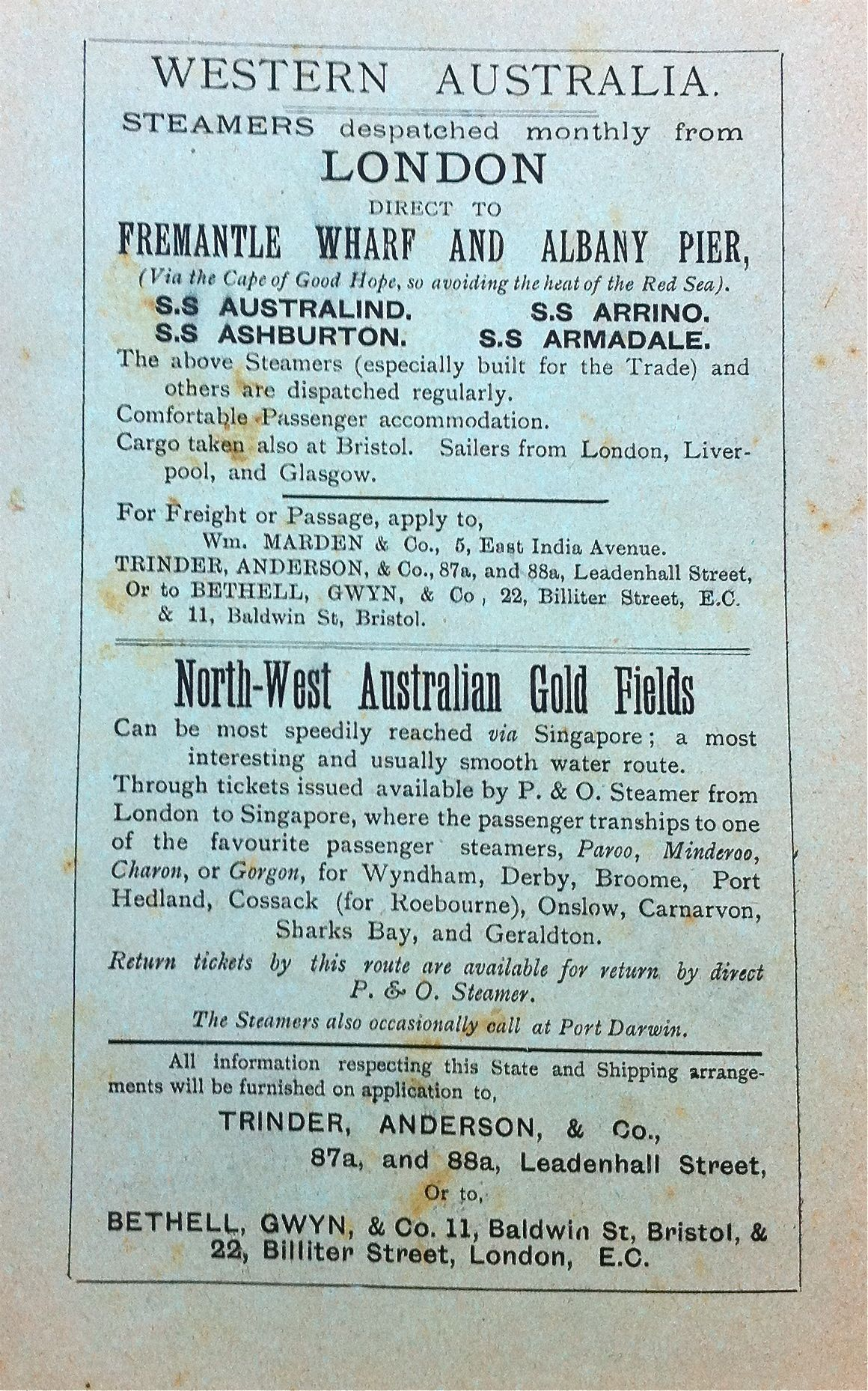 London to Western Australia steamship advertisement in 1909-1910